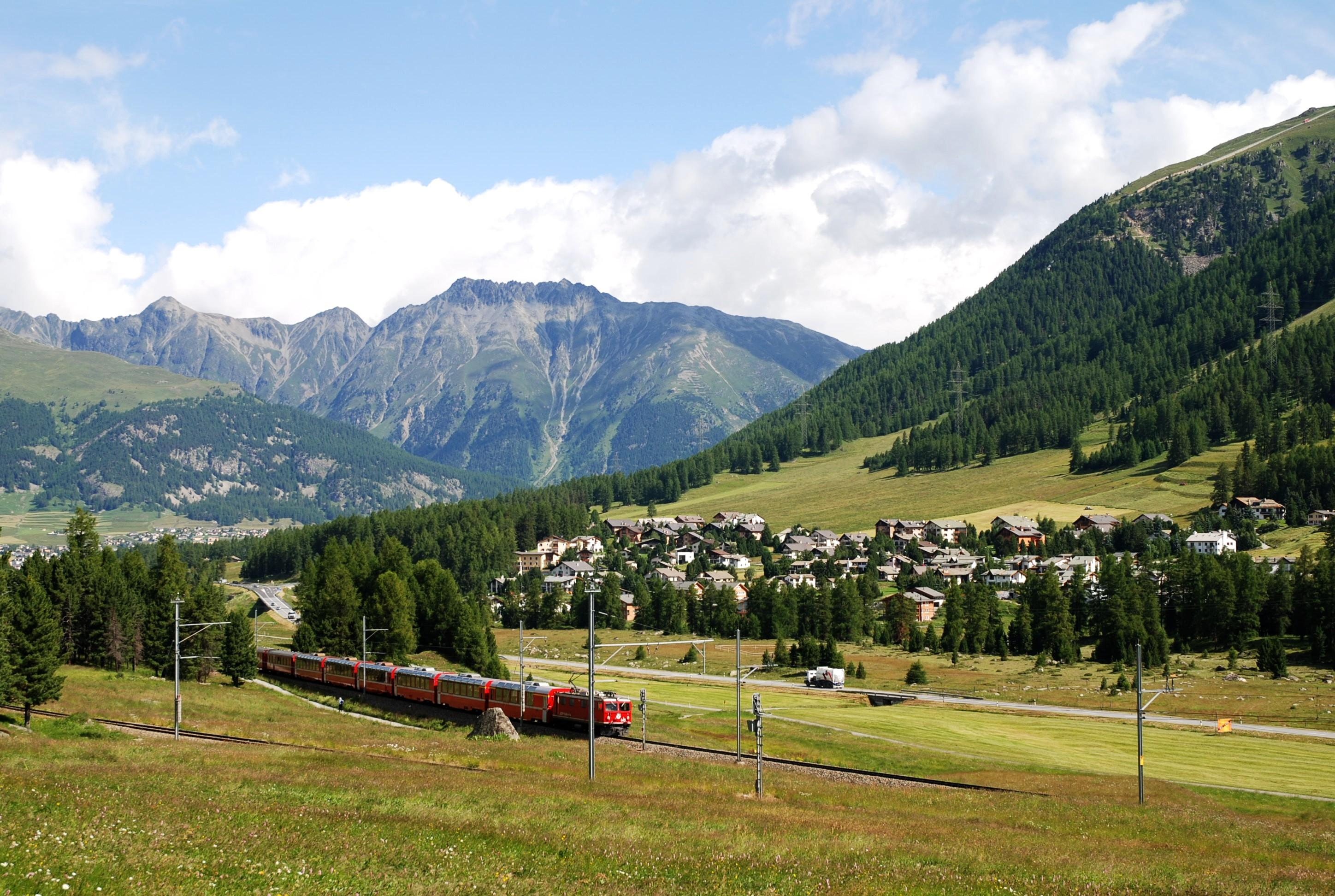 Pontresina (Godin), Graubünden